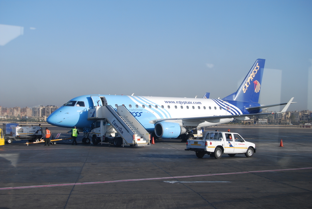 EgyptAir Express plane on cairo airport